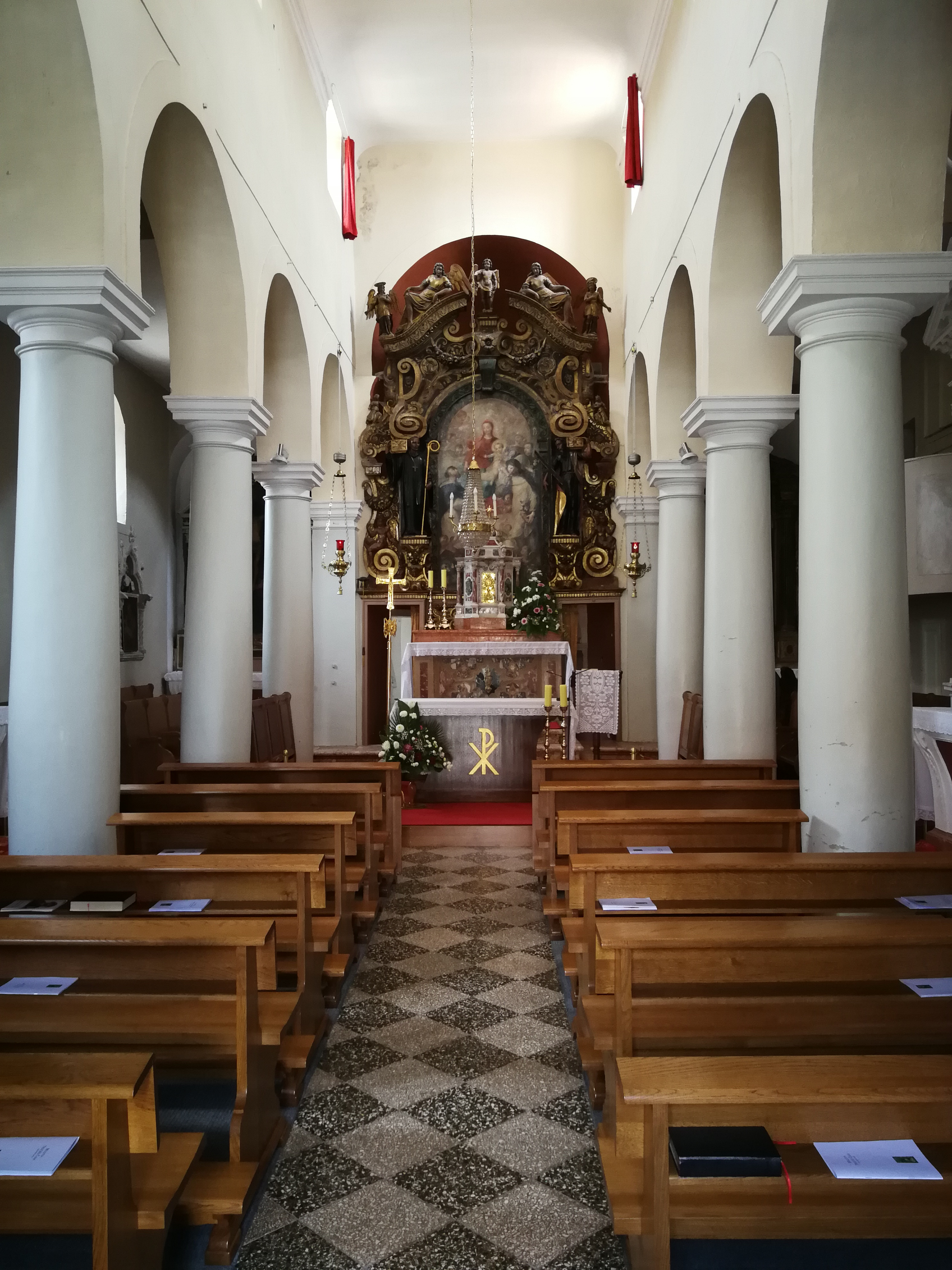 St. Andrew's Monastery at Rab (Croatia)